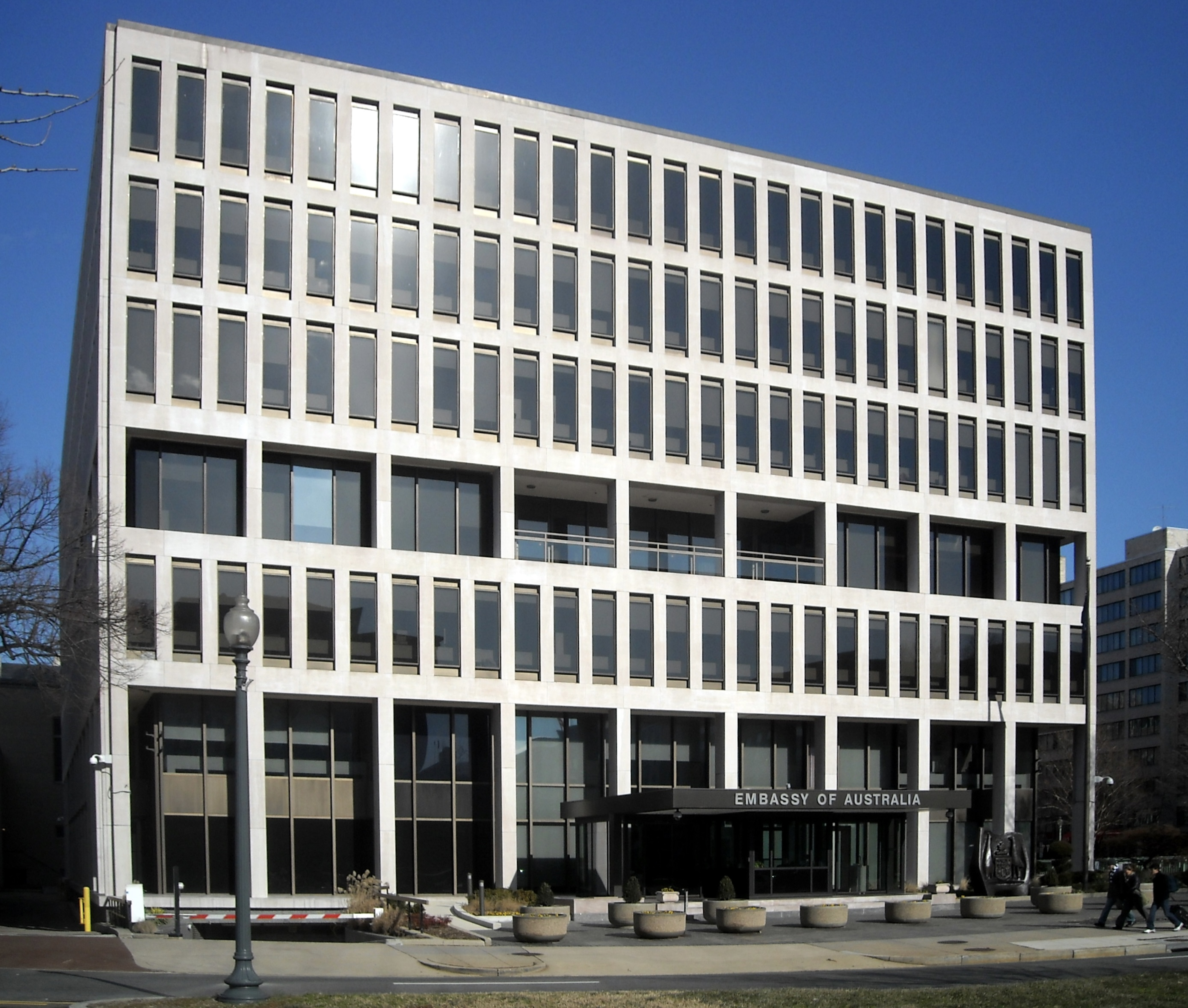 The Embassy of Australia located at 1601 Massachusetts Avenue, N.W., in Washington, D.C.